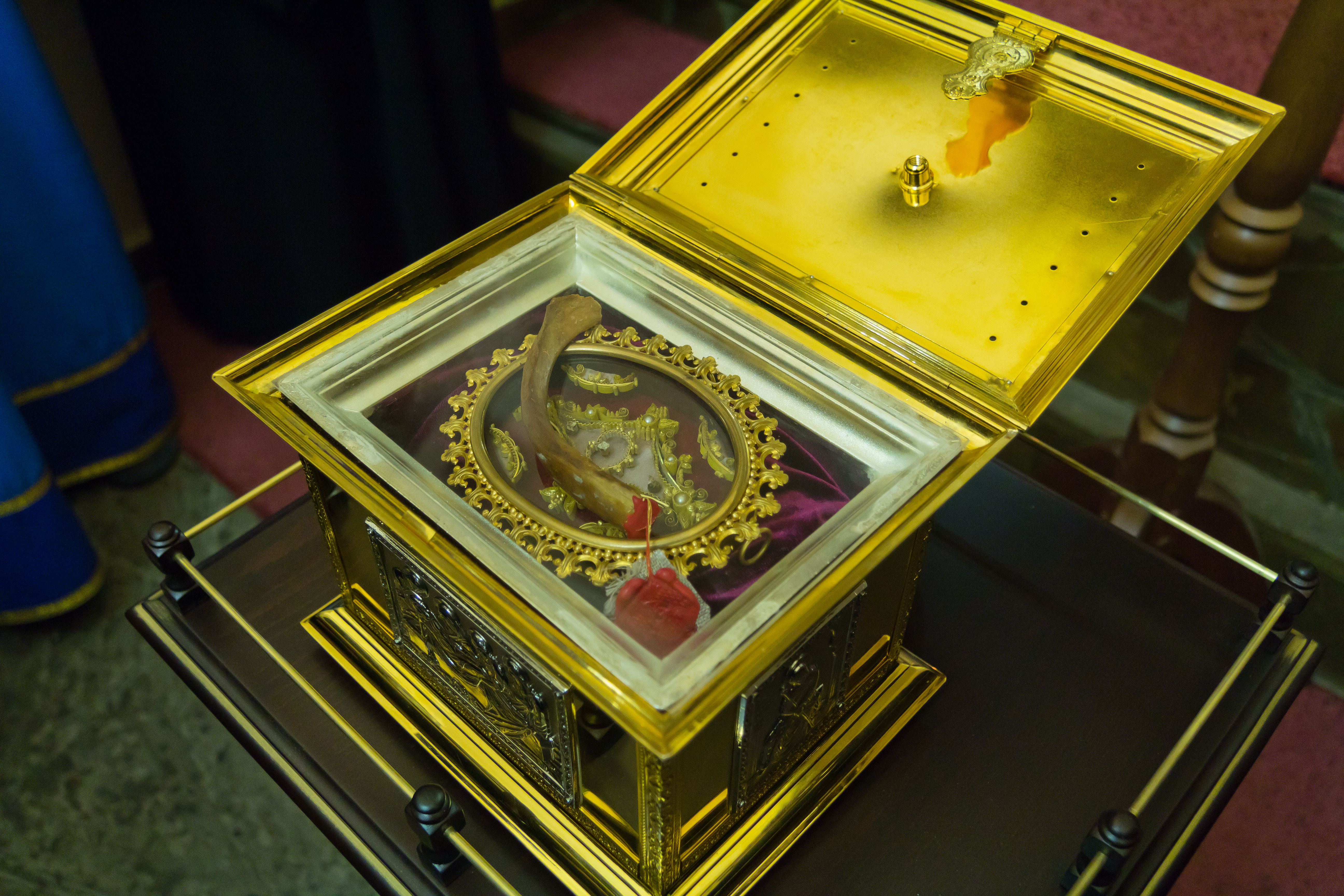 Saint Georgy in Armenian Church Sourb Gevorg in Volgograd